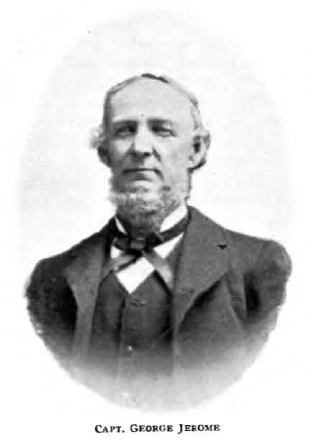 George Jerome (1823-1886), steamboat captain